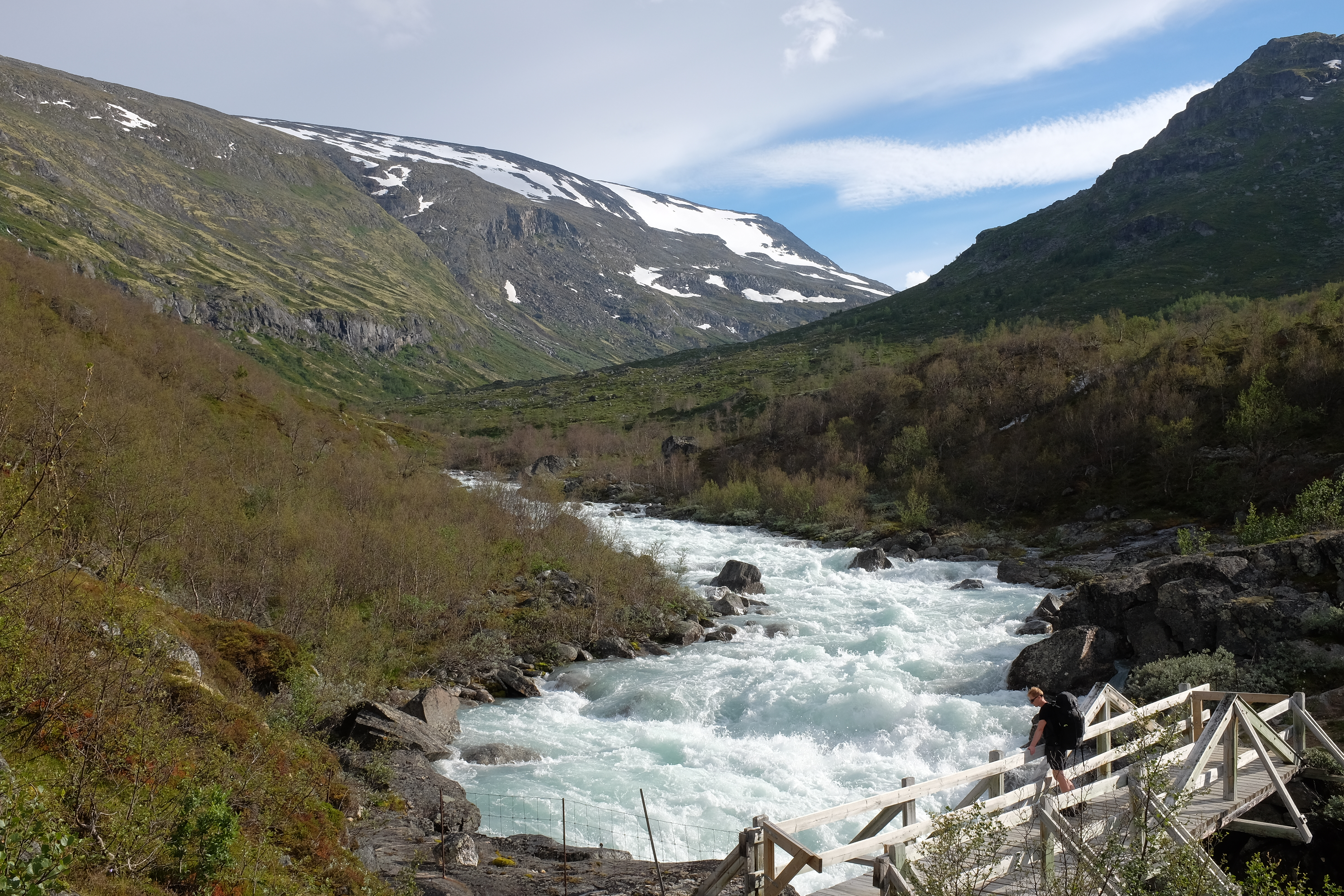 Sjøli river by the bridge at Heimaste Lundadalsætre. The river flows through Lundadalen in Skjåk municipality in Oppland county. It originates from Jotunheimen west of Hestbreapiggane.